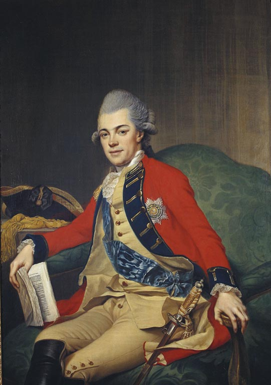 Three-quarters length, seated, facing three-quarters to the left, wearing a red uniform with blue facings and cuffs and a blue sash and star of the Order of St Andrew of Russia, holding an open book in his right hand; his tricorne hat rests on a marble table top. NOTE: there is an error in the official description: sash and star are of the Polish Order of the White Eagle, NOT the Order of St. Andrew